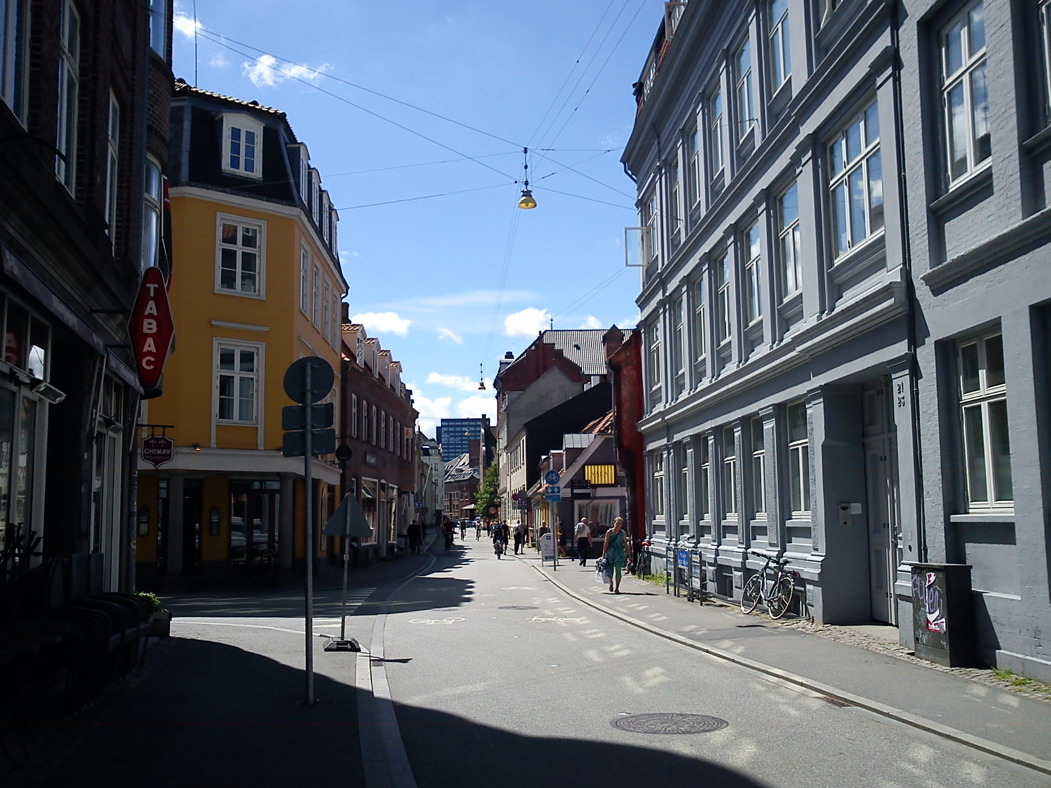 Mejlgade